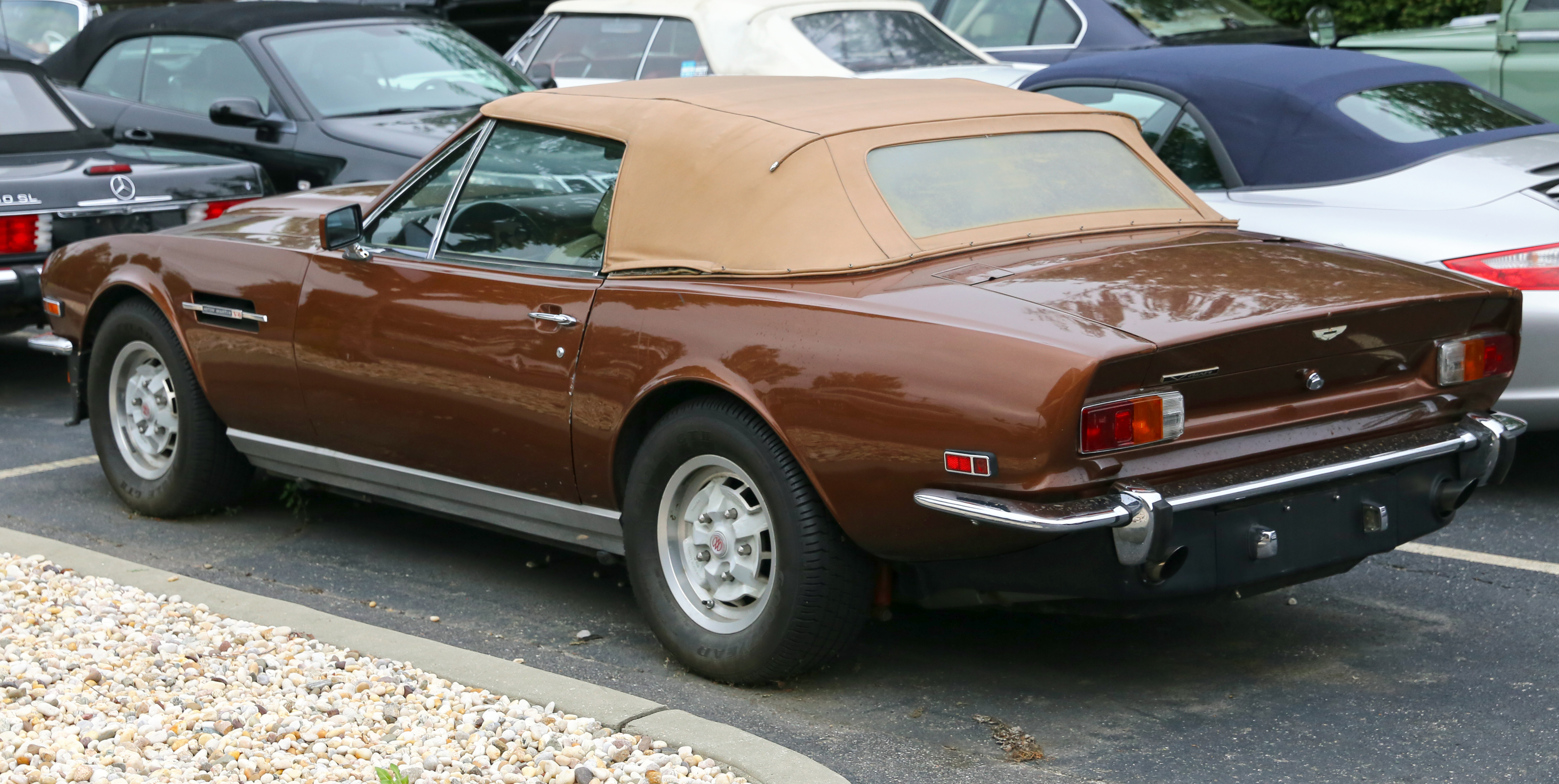 A 1979 Aston Martin V8 Volante Series 1 (equivalent to a Series 4 Saloon). This car is unusual in being a very early US-spec model, still with the smaller bumpers, and also by being fitted with a five-speed manual transmission. This car sold at the Kensington auction in Southampton, NY, in June 2005. Since then it's apparently seen some hard times, with a cracked front skirt and numerous dents across the bodywork. The interior was shabby in 2005 and in worse shape in 2013 - but it's at a mechanic, so perhaps things are looking up for this lovely motor?